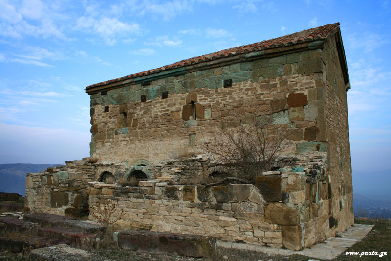 Medieval church in Pavnisi, Georgia